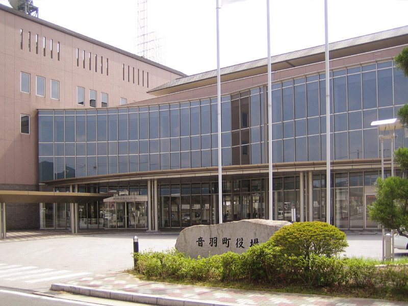 Otowa Town Cultural Hall (音羽町文化ホール), now Otowa Cultural Hall (音羽文化ホール), located at 250, Matsumoto, Akasaka-cho, Toyokawa, Aichi, Japan